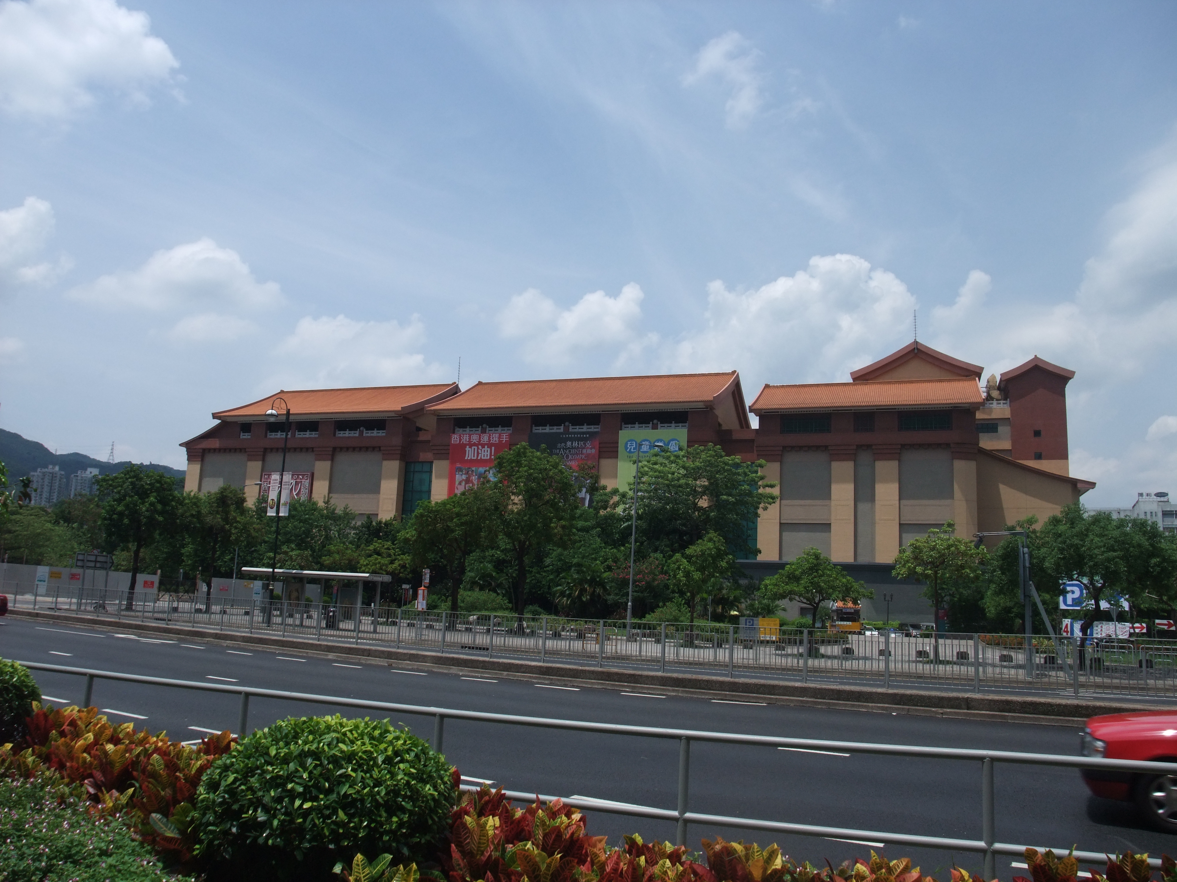 Photo of Hong Kong Heritage Museum